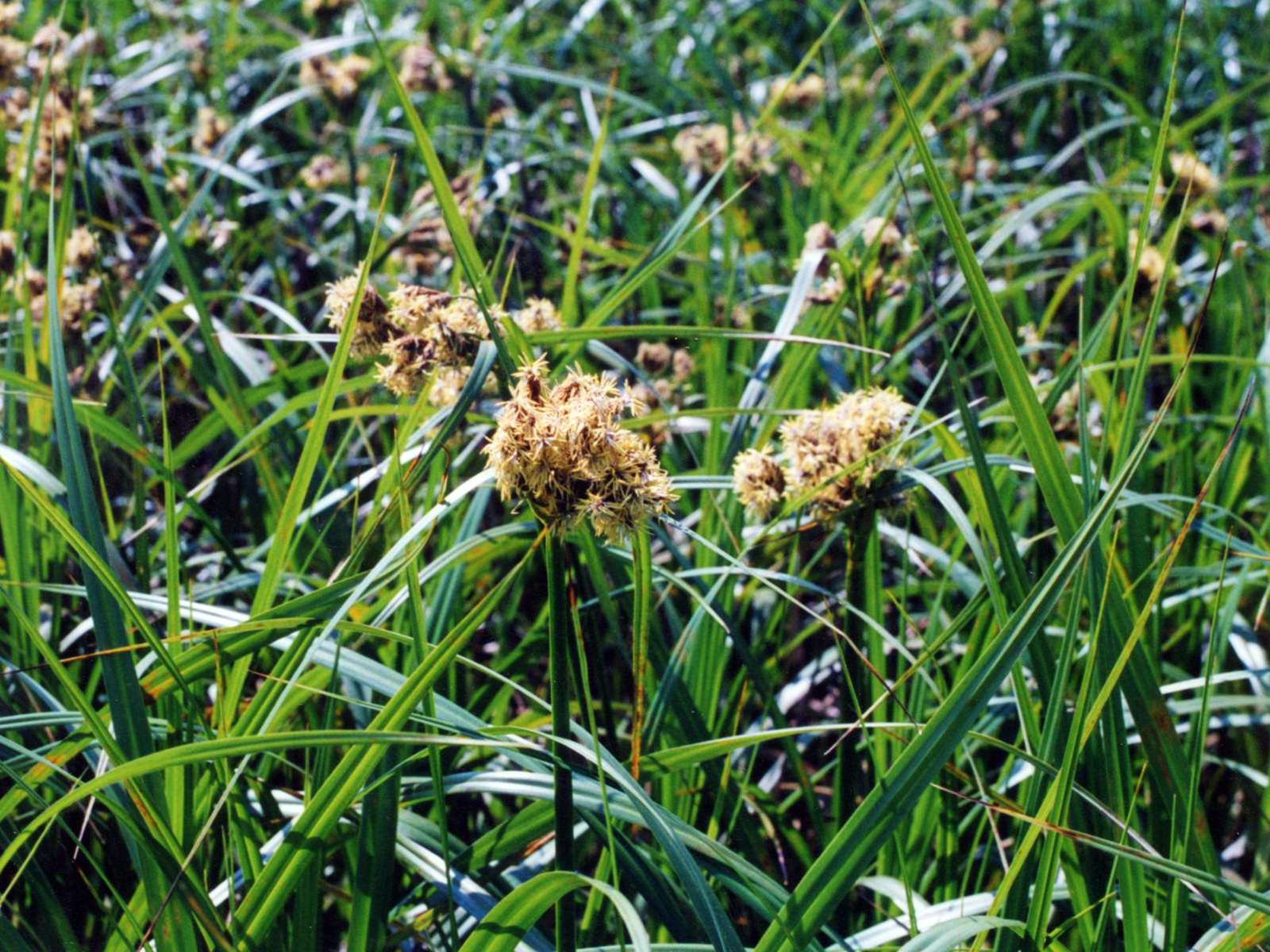 Scirpus atrovirens Willd. - green bulrush